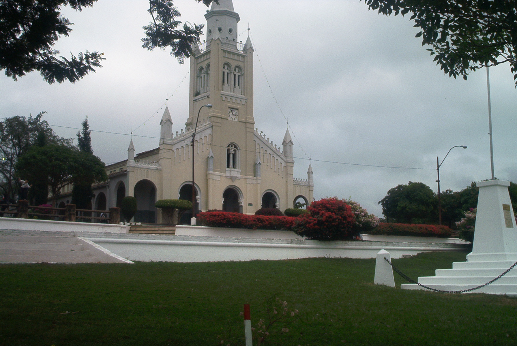 iglesia de la Candelaria, Aregua, Paraguay